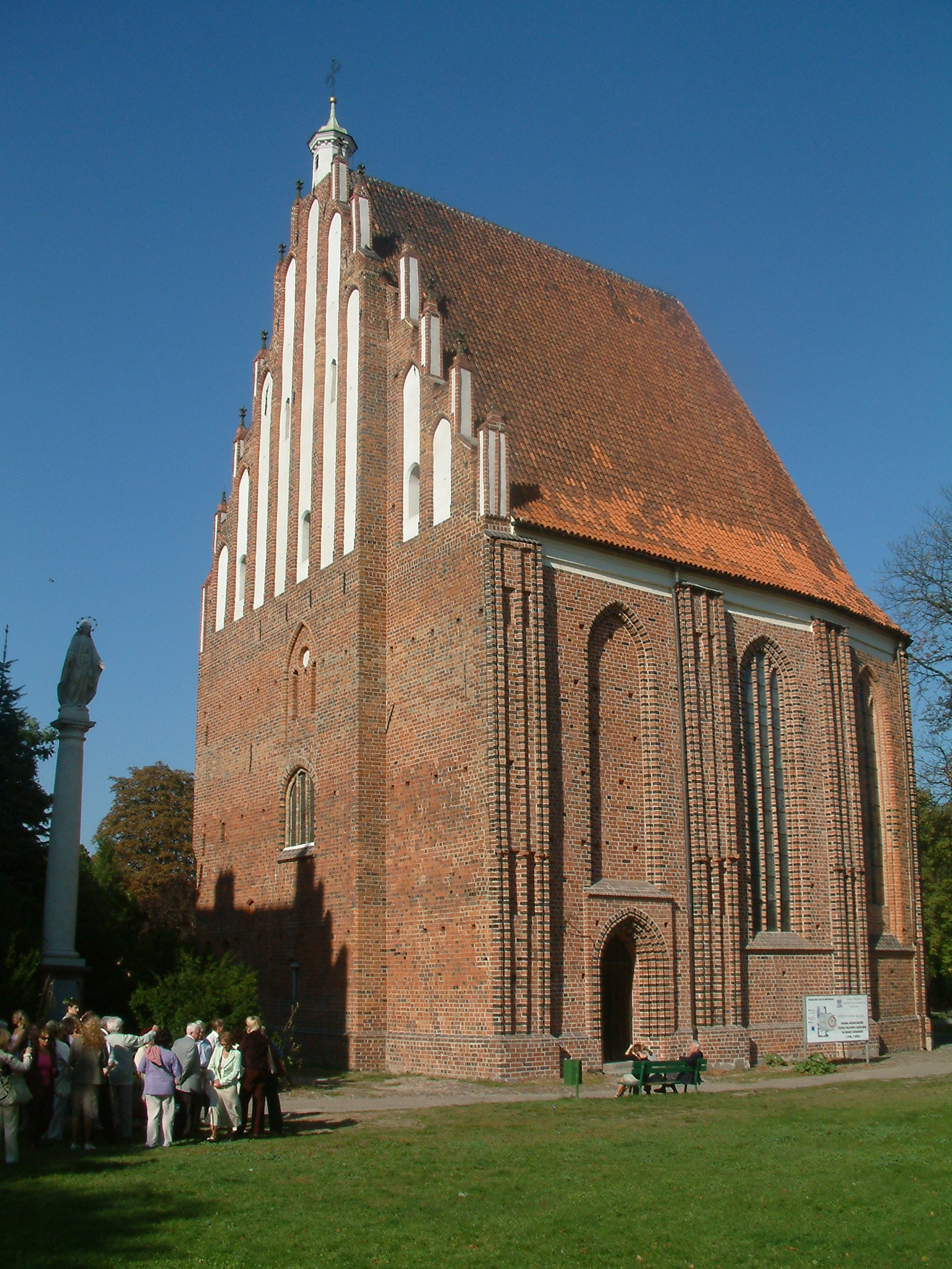 Church of Holly Virgin Mary in Poznań